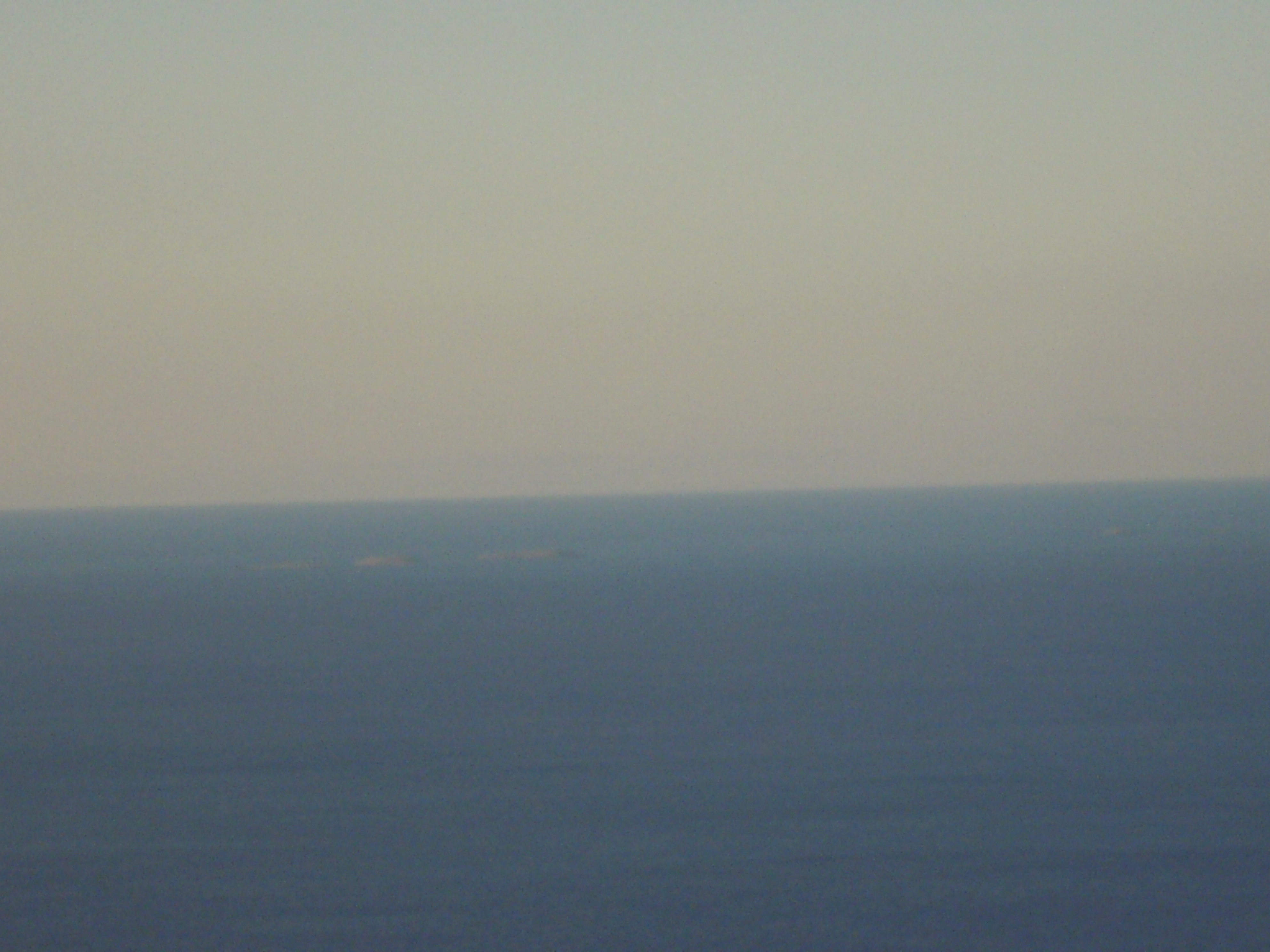 Vrhovnjaci as seen from Pelješc OLYMPUS DIGITAL CAMERA